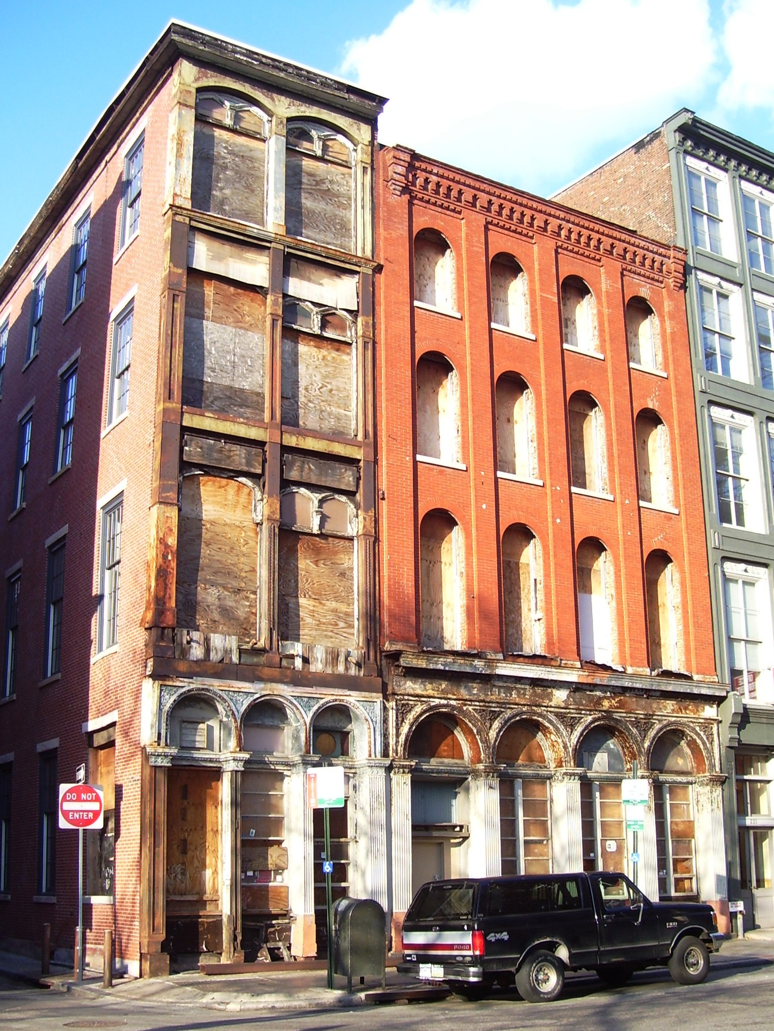 223-225 (right) & 227 (left) Chestnut Street between S. Bank and S. Strawberry Streets in the Old City neighborhood of Philadelphia, Pennsylvania.